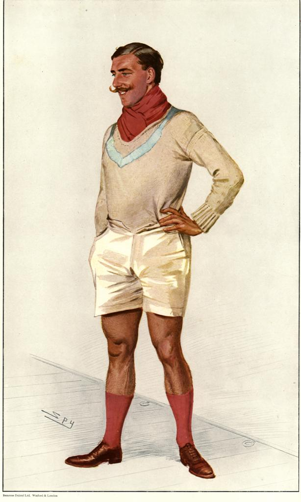 Caricature of Banner Carruthers Johnstone. Caption read: "Bush".